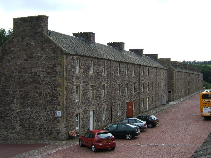 Wee Row in New Lanark, Scotland. The building is now a youth hostel.